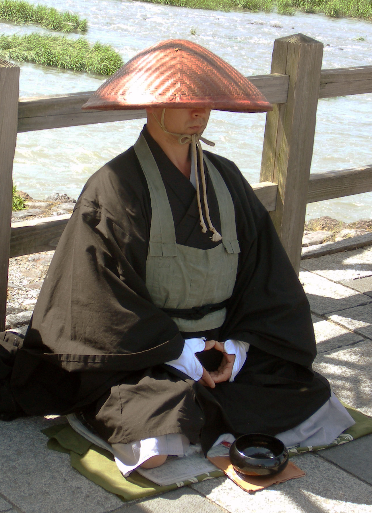 Yuzen, a buddhist monk from the Sōtō Zen sect begging at Oigawa, Kyoto. Begging is part of the training of some Buddhist sects.